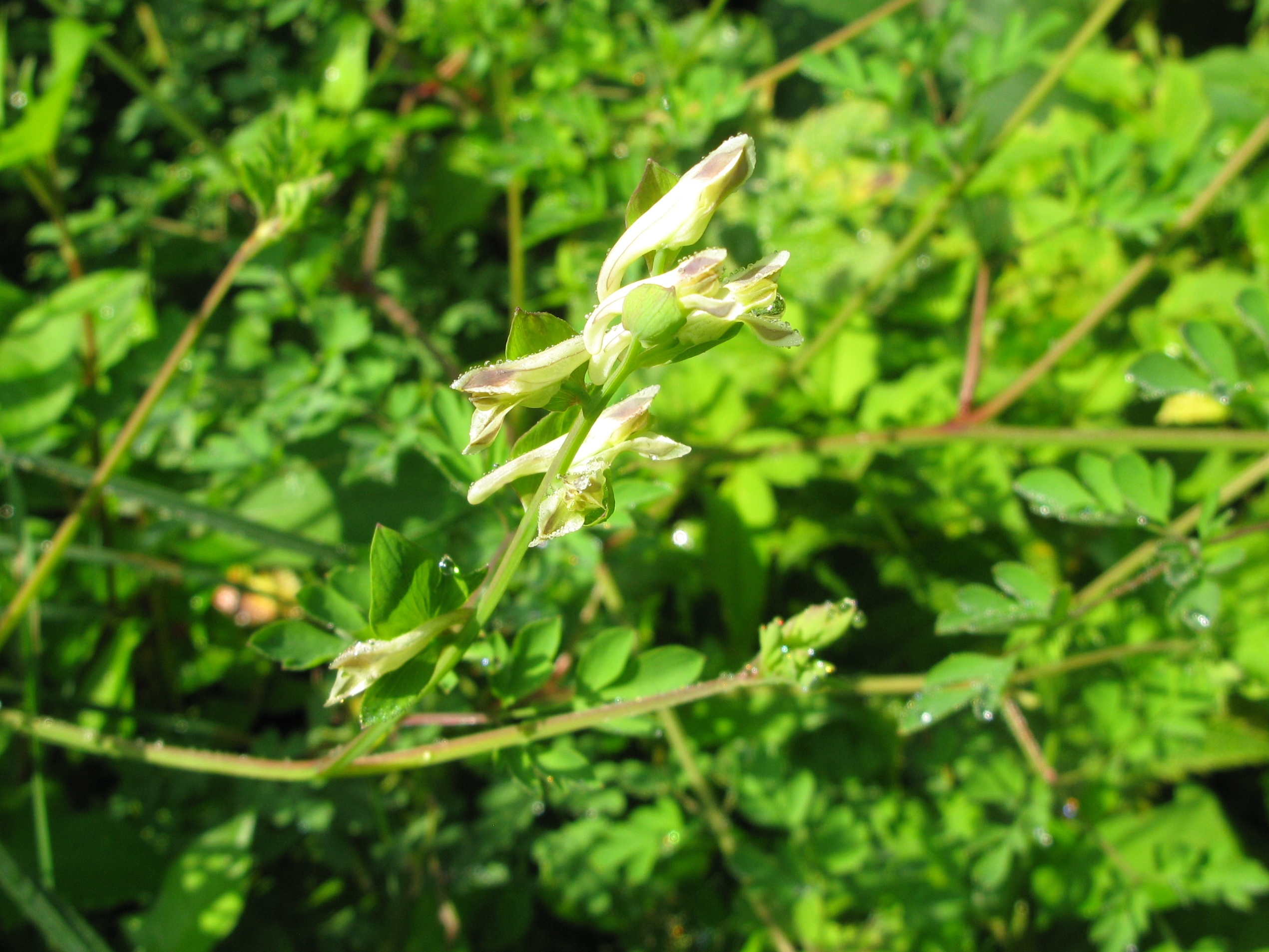 Corydalis_ochotensis, Aizu area, Fukushima pref., Japan